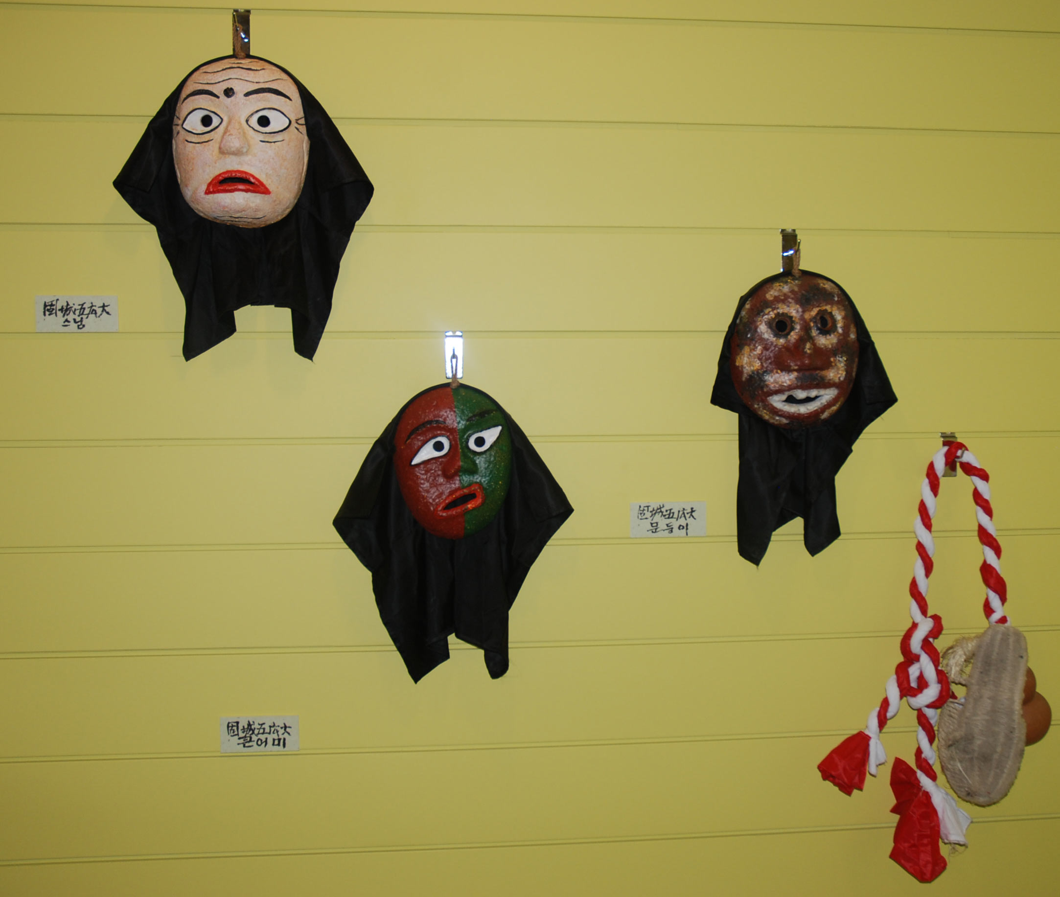 Okwangdae Mask at Kosung near Jinju(The National Jinju Museum)